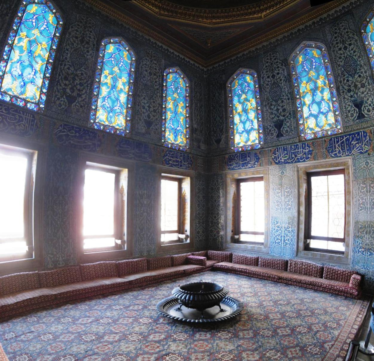 Interior of the Twin Kiosk where the princes lived, at Topkapi Palace in Istanbul.